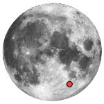 Description: Location of the Piccolomini crater on the Moon. Source: This is a modified version of a photo obtained from the NASA Planetary Photojournal. It was modified by RJHall. Width: 150 pixels Height: 150 pixels